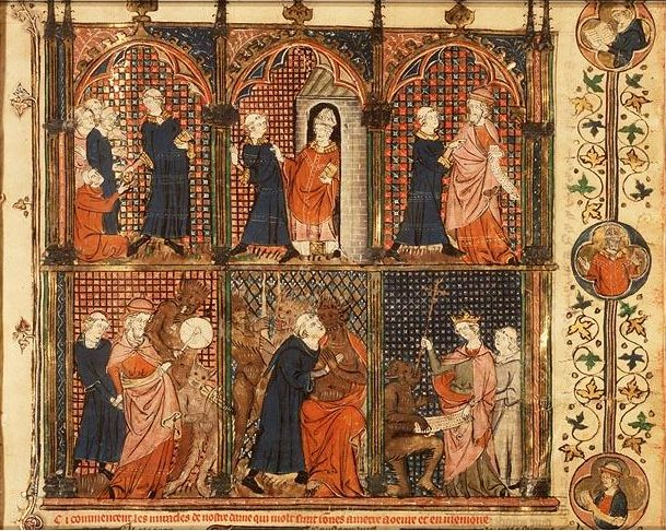 Legend of the monk Theophilus